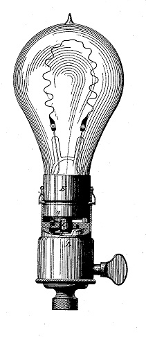 Drawing incandescent lamp holder from U.S. Patent №320,029 registered to Edward Weston at June 16, 1885